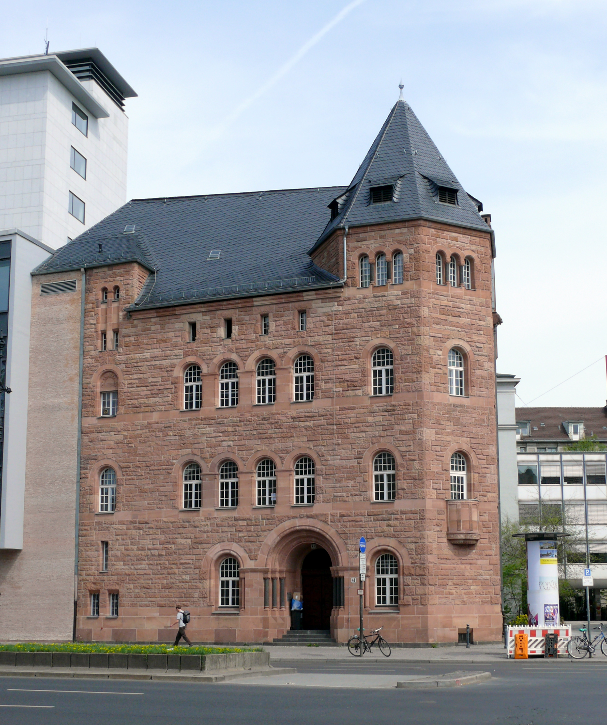 Berlin-Charlottenburg Hardenbergstraße 41 Institut für Kirchenmusik